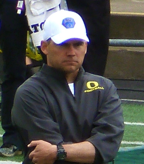 Oregon Ducks Head Football Coach Mark Helfrich observing the 2014 Spring Game from the field. JPG version of the original file, itself extracted from File:Helfrich 2014 Spring Game.JPG.